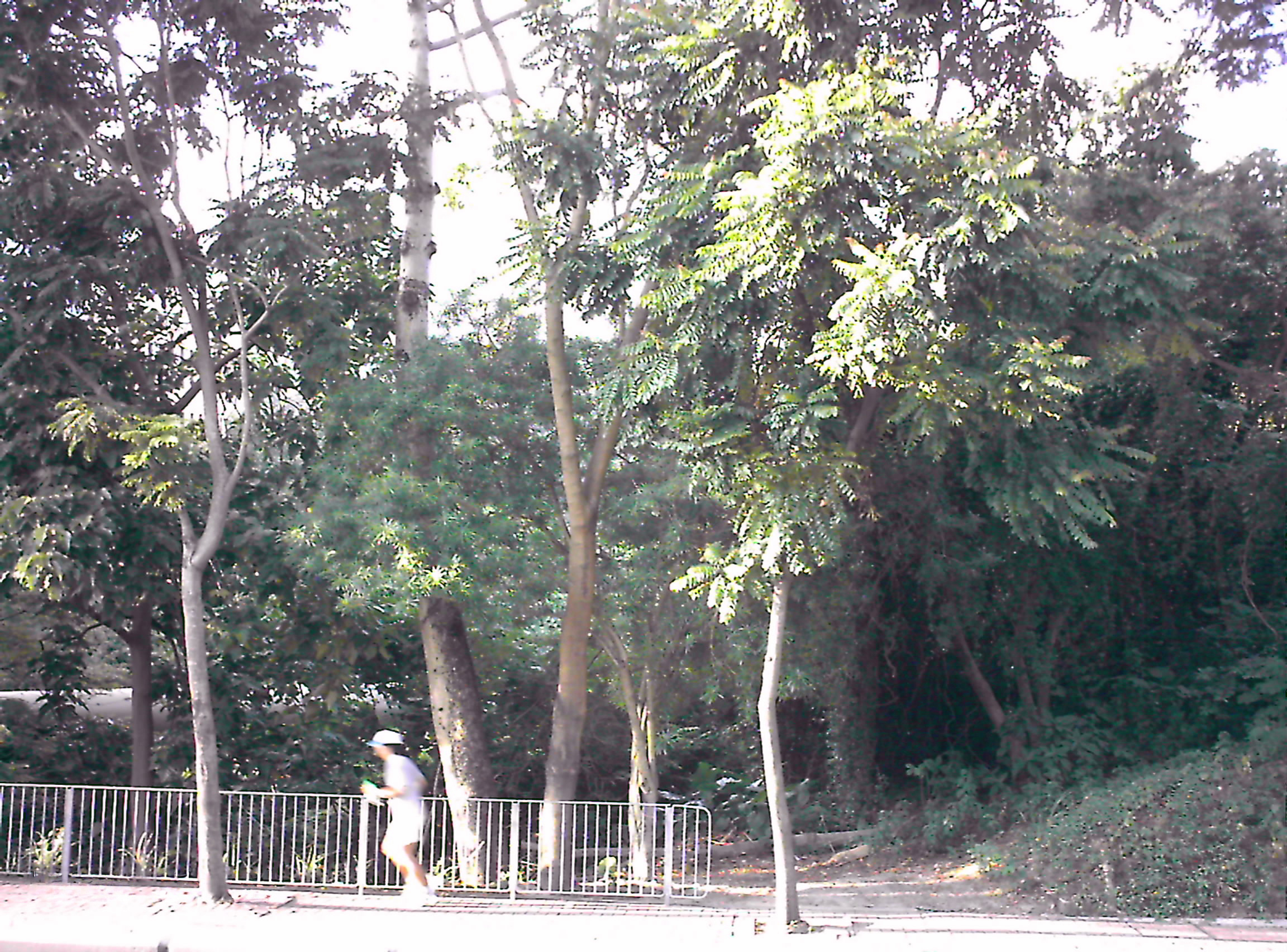 Enterance for Siu Sai Wu at Cornwall Street, Kowloon Tong 中文（香港）: 九龍塘筆架山小西湖：位於哥和老街的下遊入口。